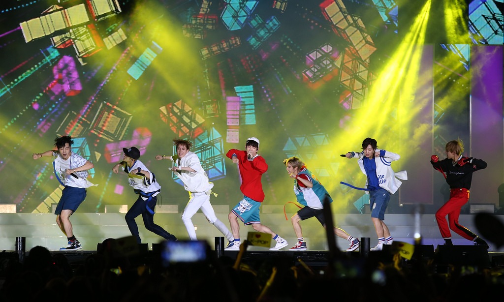 2015 Summer K-POP Festival August 4, 2015 Seoul Plaza Ministry of Culture, Sports and Tourism Korean Culture and Information Service ( Official Photographer : Jeon Han